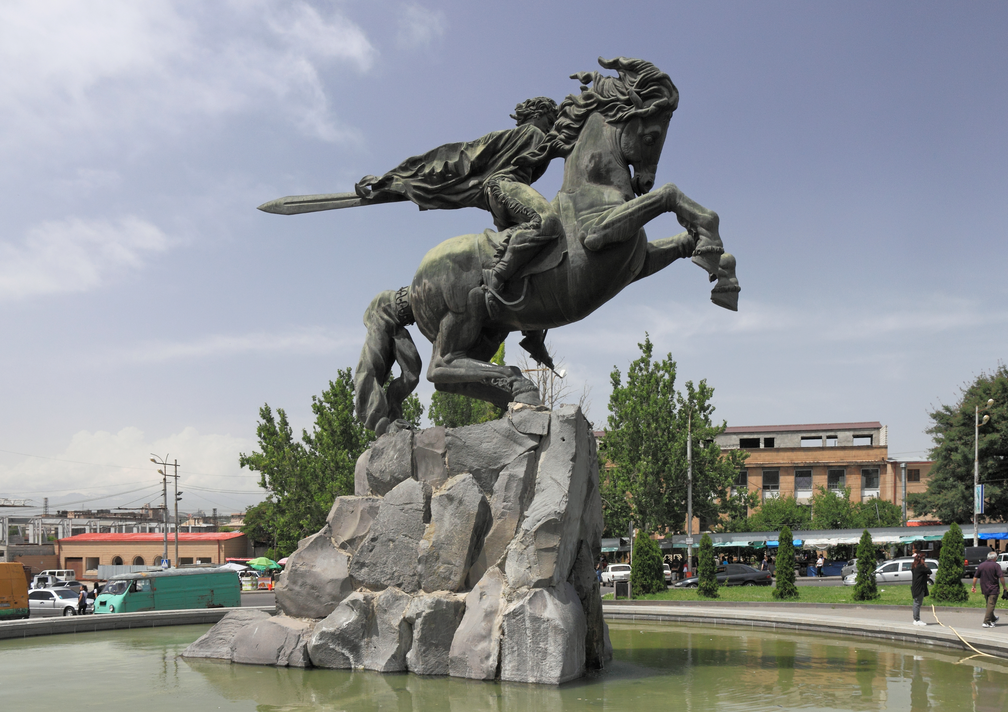 The statue of David of Sassoun. Yerevan, Armenia.